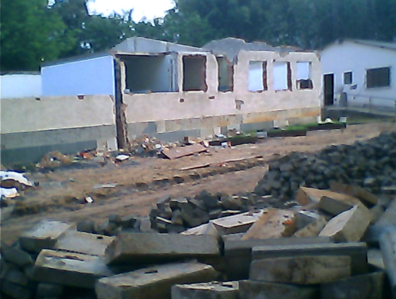 Demolition of building in Cefet-MG campus II (in Belo Horizonte, Brazil) for construction of new building on the site.